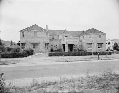 Hotel Civic, Canberra, March 1951